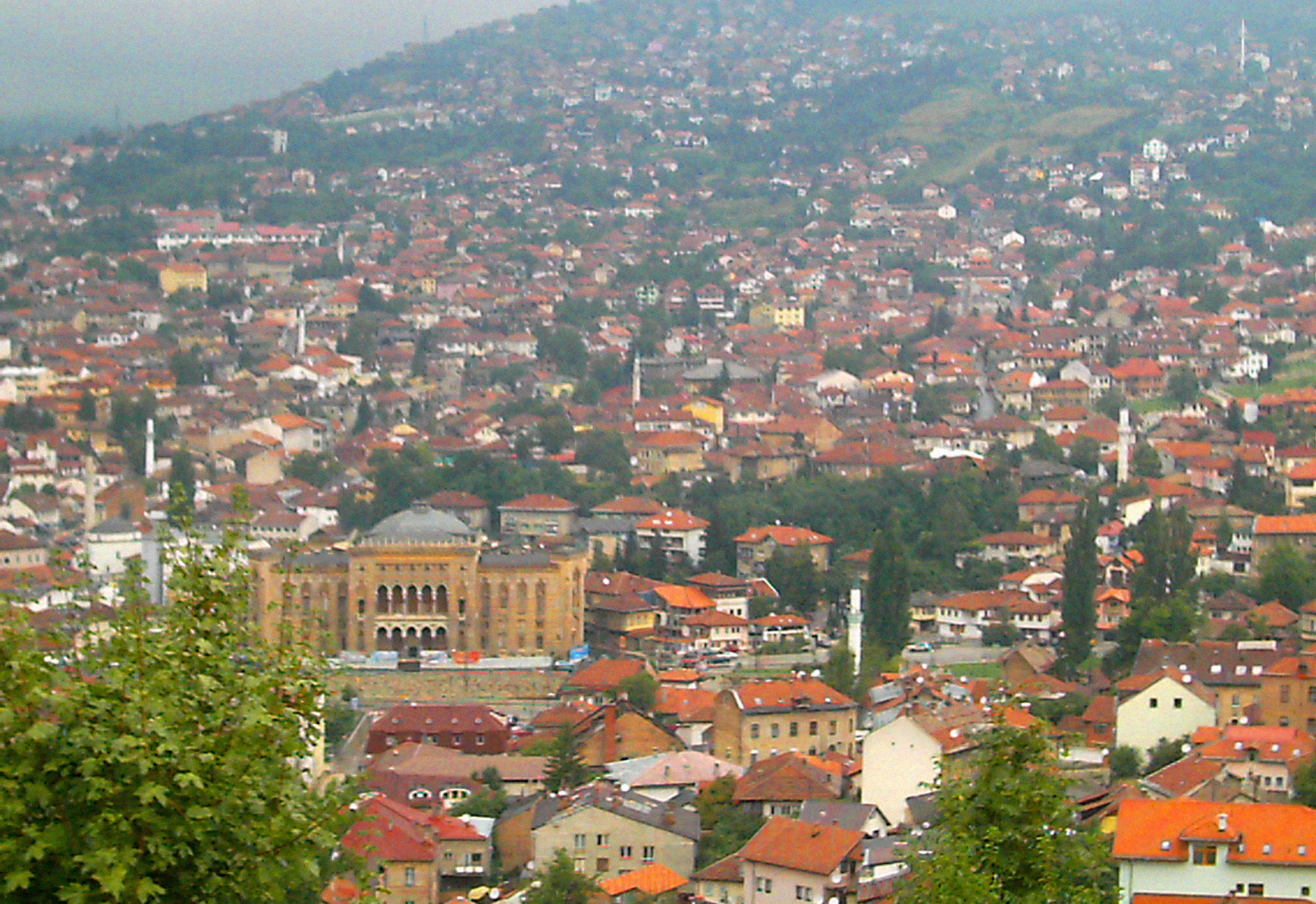 Cityscape of Sarajevo